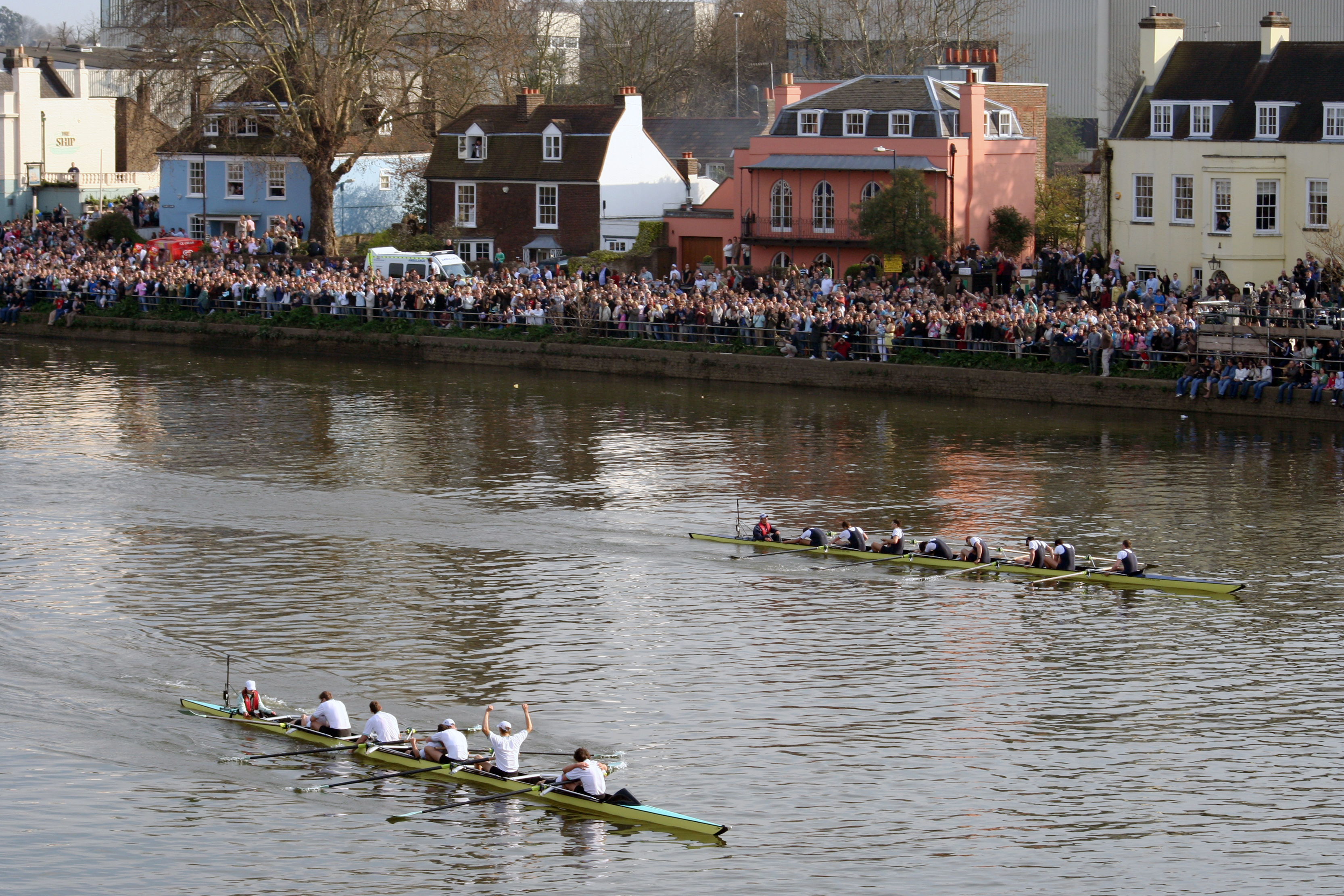 View of the finish of the 2007 Oxford - Cambridge Boat Race, taken from Chiswick Bridge in London on April 7, 2007 by MykReeve.